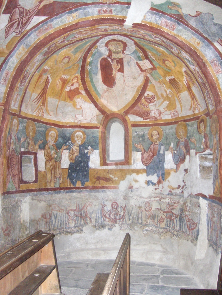 fresco in the smaller apse